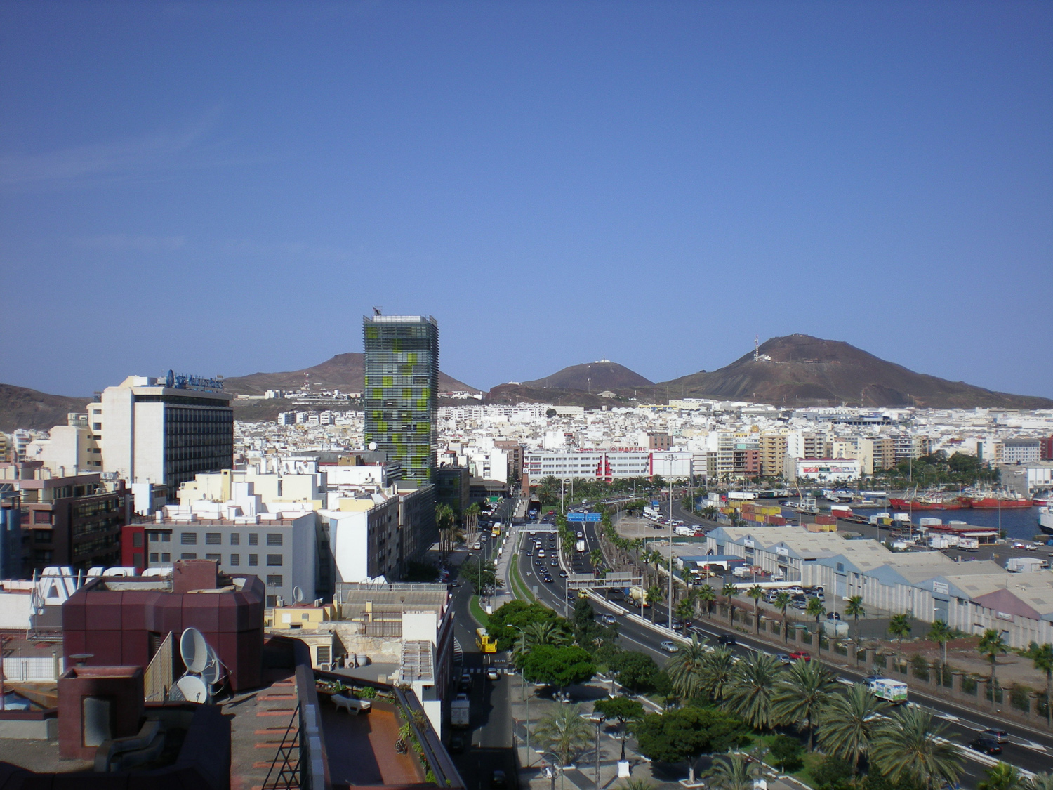 View towards the north eastern tip of Gran Canaria, seen from central Las Palmas de Gran Canaria. Gran Canaria, Canary Islands.